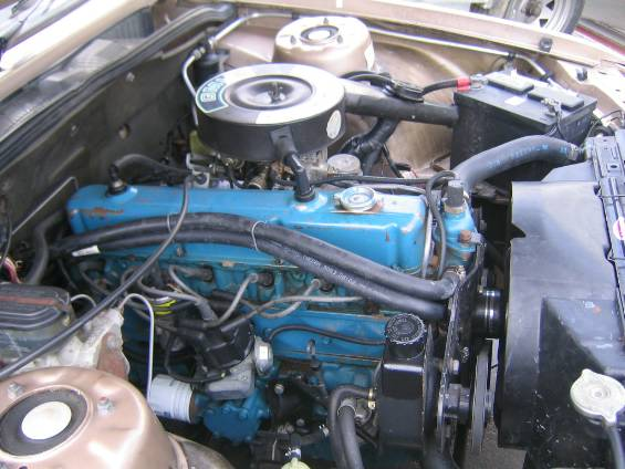 Straight-six Blue motor of a 1981–1984 Holden VH Commodore SL/X sedan.